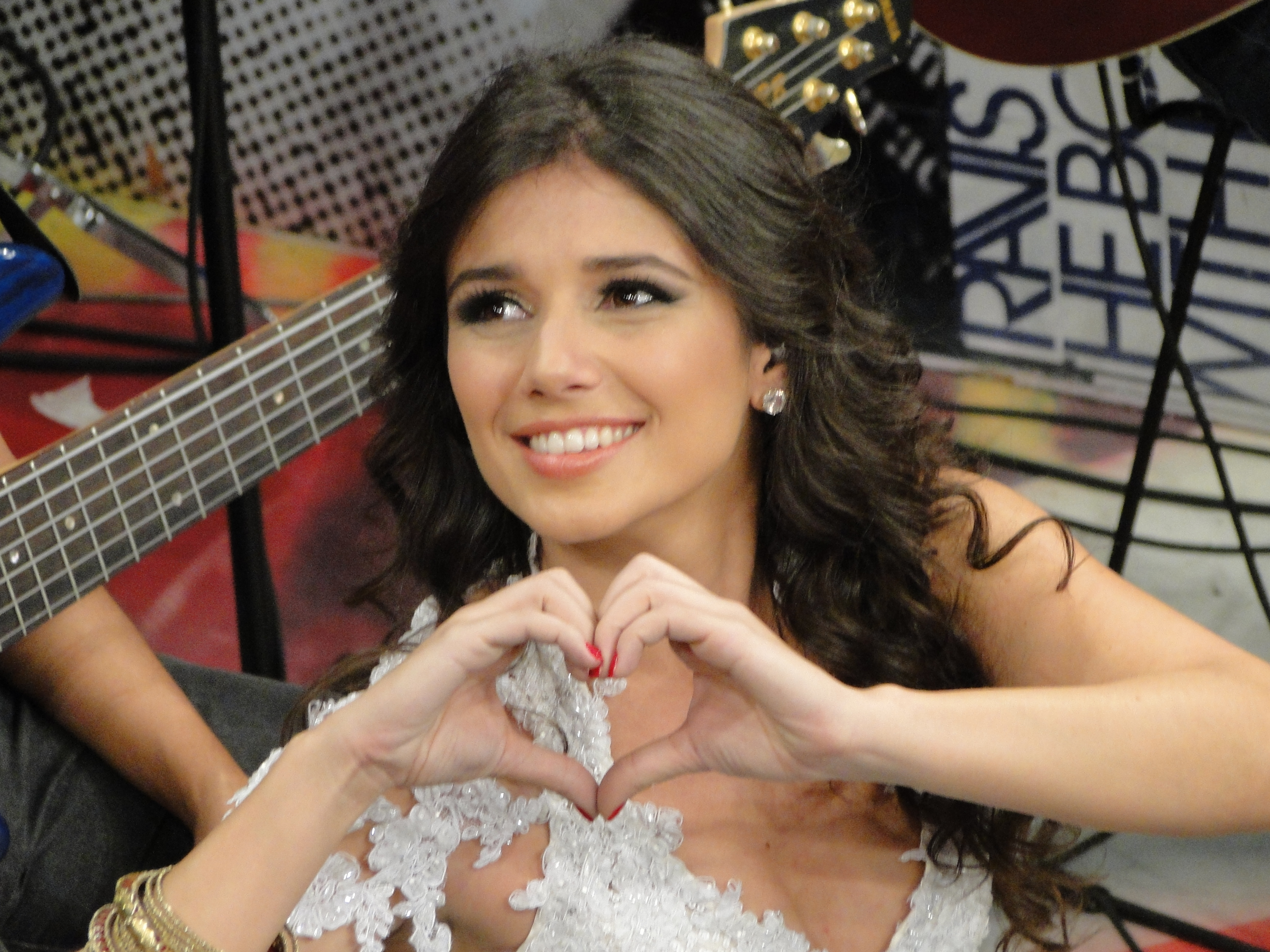 Paula Fernandes making heart hand-sign